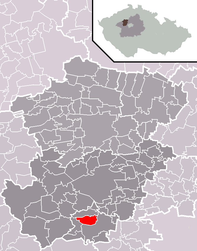 Location of Kyšice municipality within Kladno District and administrative area of Kladno as a Municipality with Extended Competence.